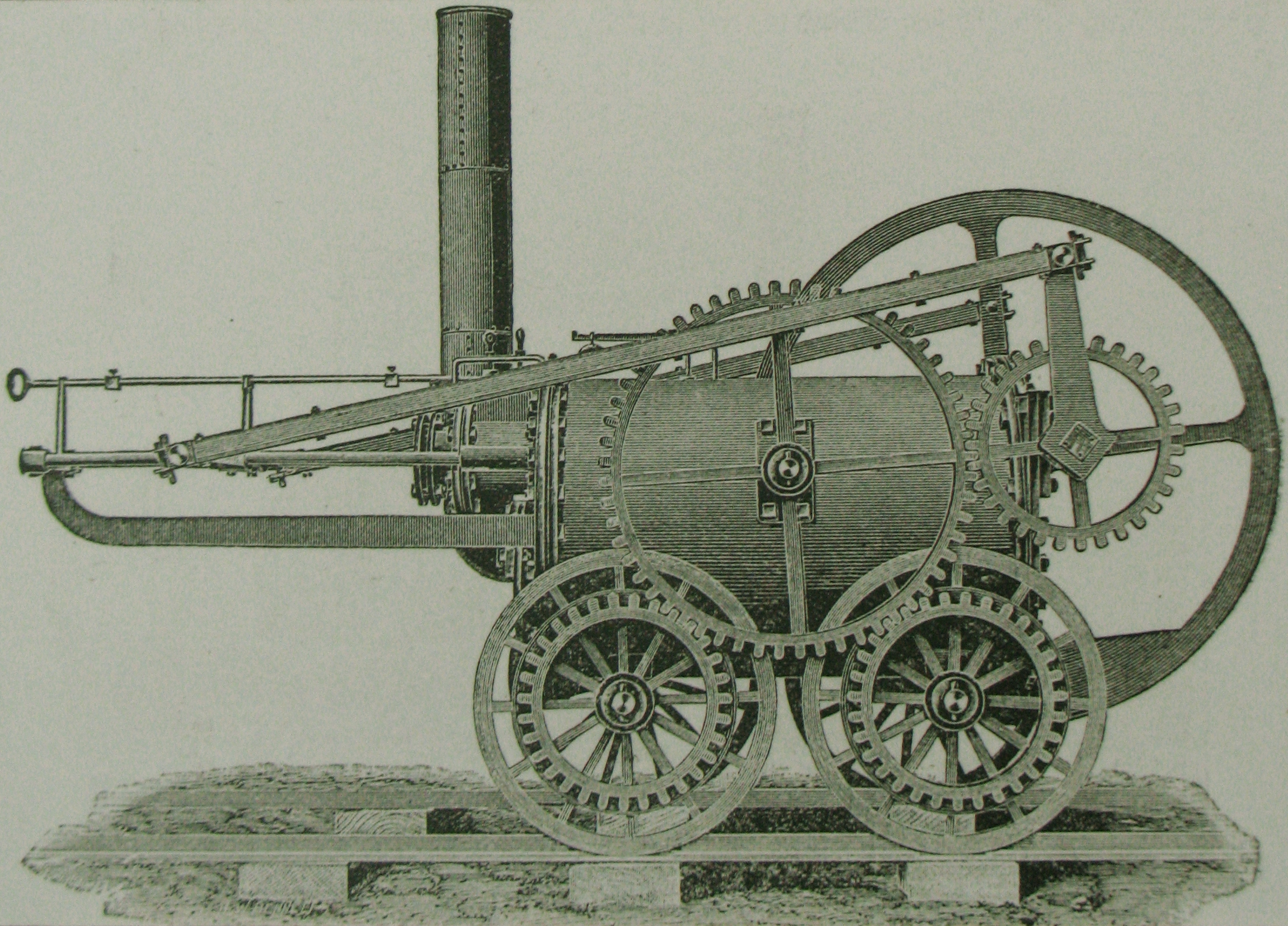 "Invicta", 1803/04 at Railroad Museum Bochum-Dahlhausen. Incorrect title and description. This is Richard Trevithick's 1802 Coalbrookdale locomotive.